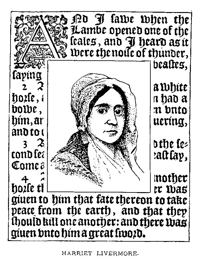 Sketch of Harriet Livermore originally published as the (unattributed) frontispiece to The Essex Antiquarian (Salem, Mass.), V (1901). The sketch probably dates from the 1830s or 1840s.